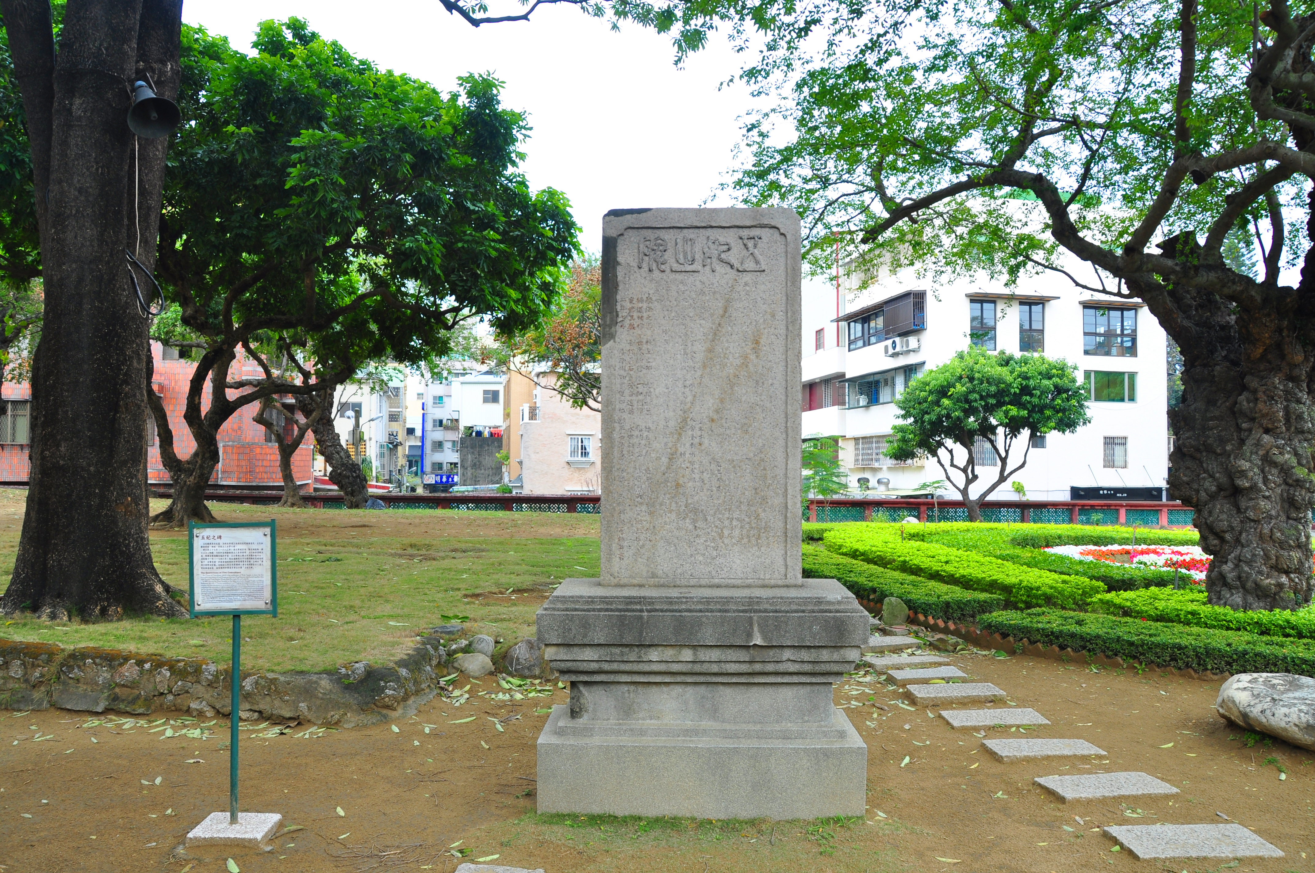 1927 Tainan governor Kita Koji was hand essays "Concubines Temple of the Five Concubines monument" , "hanging Concubines Temple of the Five Concubines tomb" poetry and Postscript.